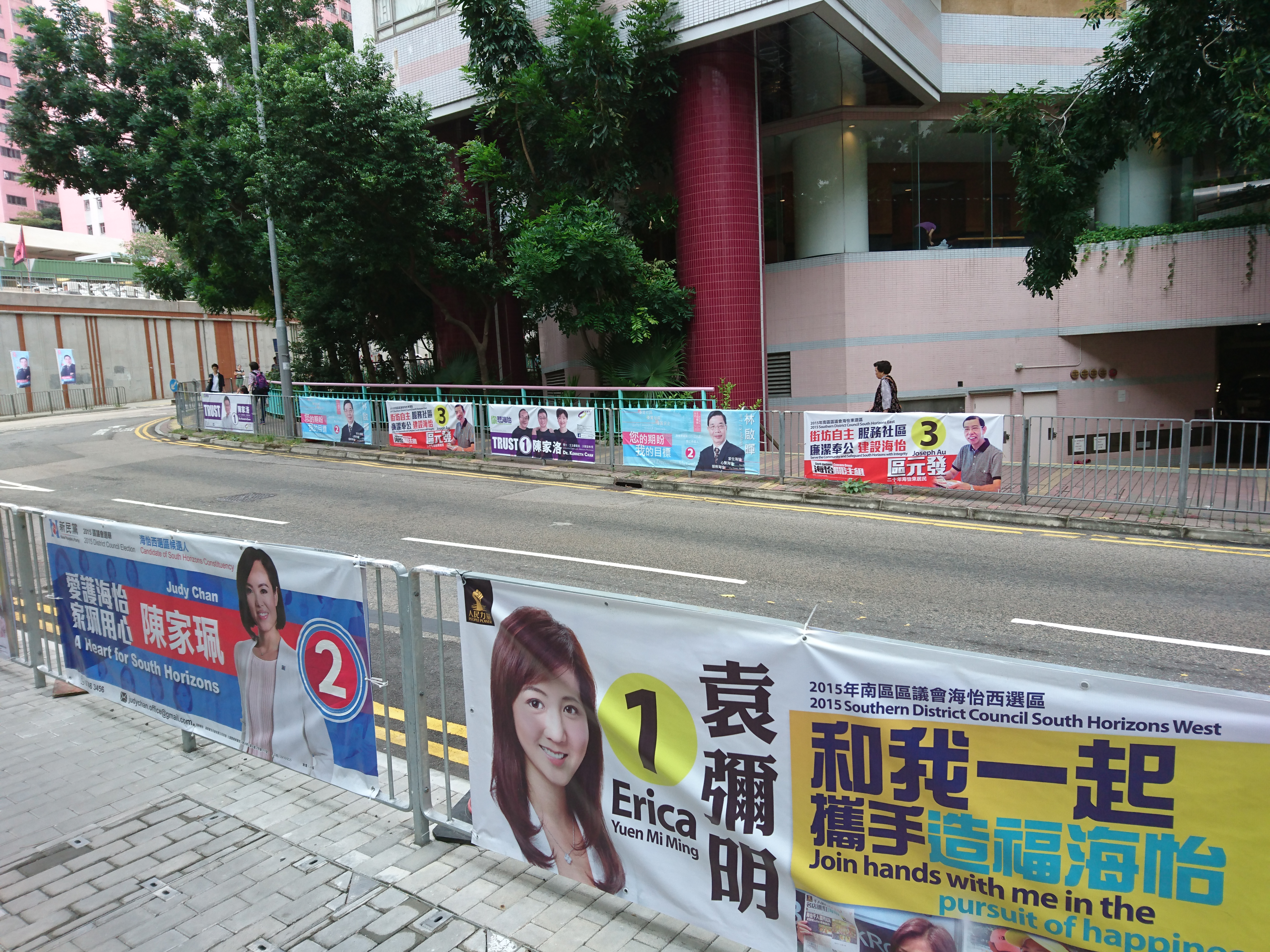 2015 DC Election Promotion in South Horizons near Block 31